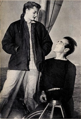 Lauren Bacall & Humphrey Bogart on the set on the American film Key Largo (1948)